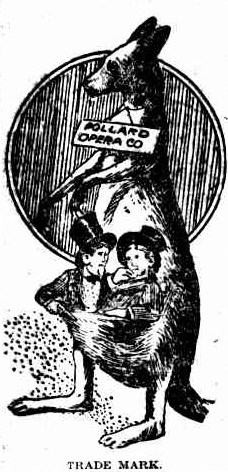 Trade Mark of Pollard's Lilliputian Opera Co